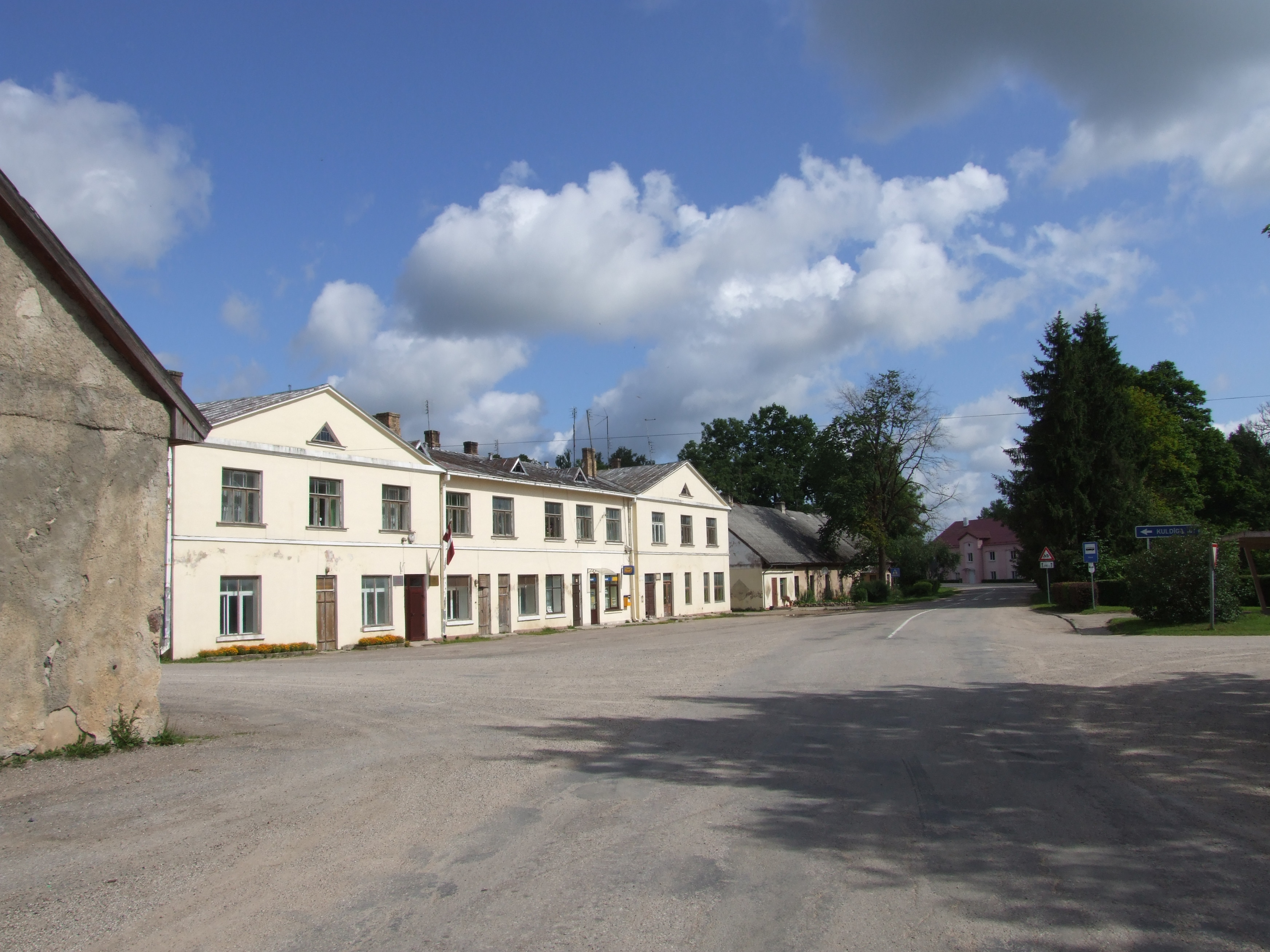 Main street in Vāne, Latvia